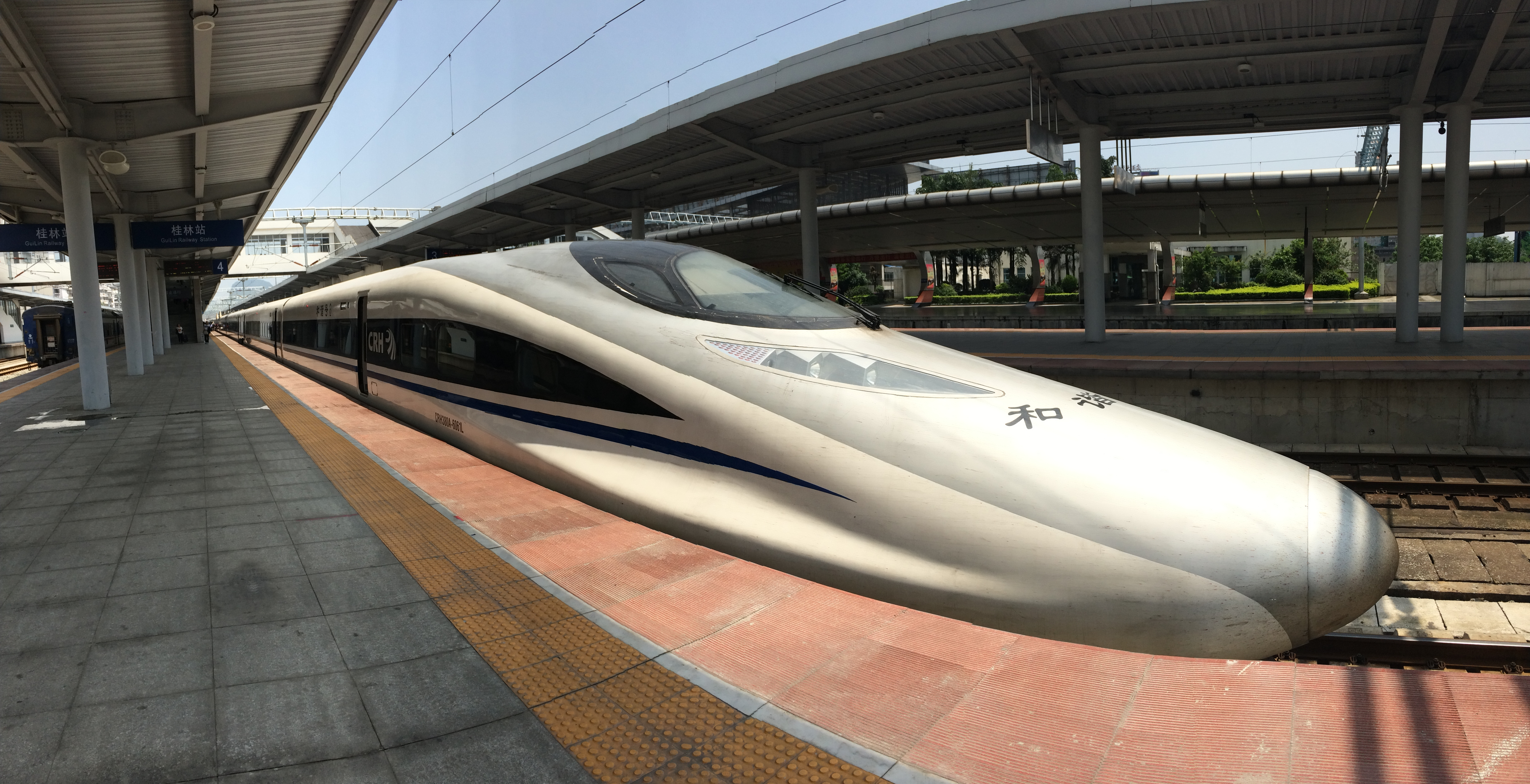 Guilin_Station_CRH380AL